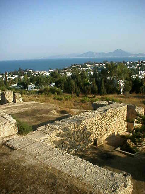 Ruins of Carthage, Tunisia